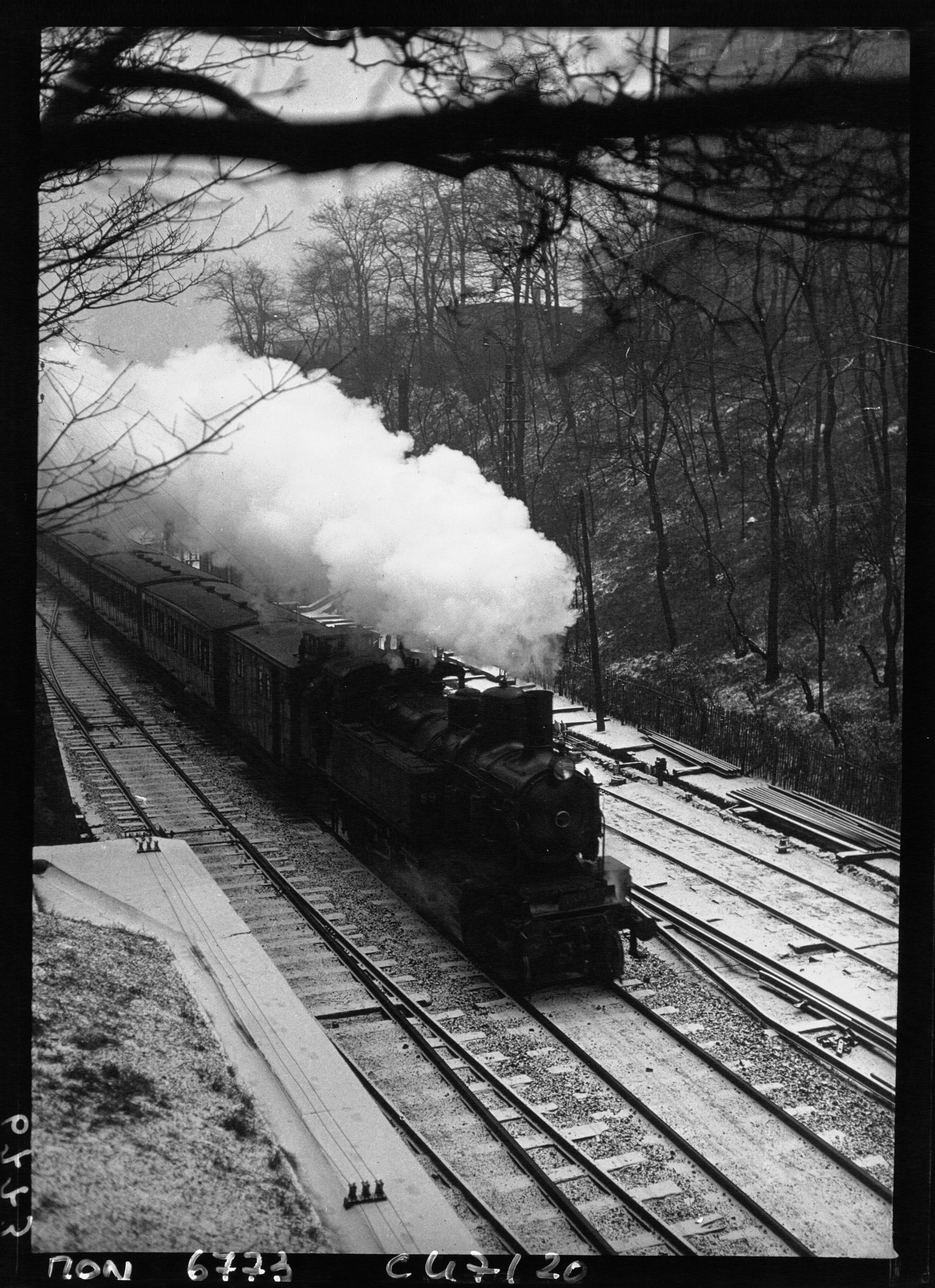 One of the last Petite Ceinture de Paris trains in 1933 - the railway would close one year later. View from the Buttes-Chaumont ravine slope to a steam engine and passenger train travelling below the park.